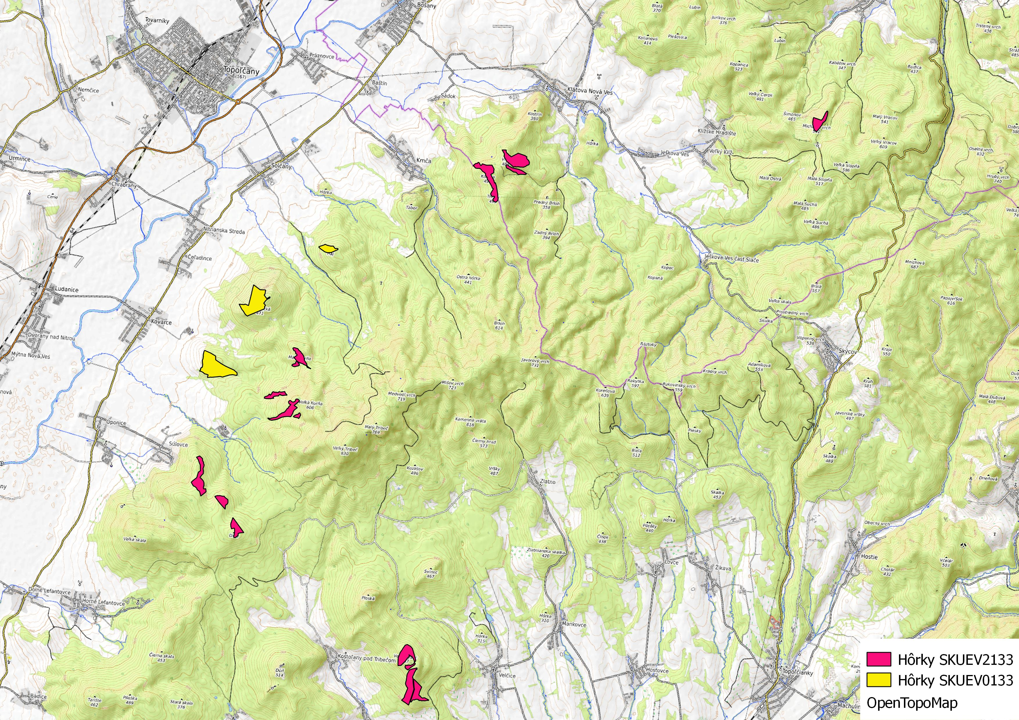 Map, describing the problem of using the same name "Hôrky" for Special Areas of Conservation in Slovakia if the enlargement is 9 km distance and in different geomorphological subarea.